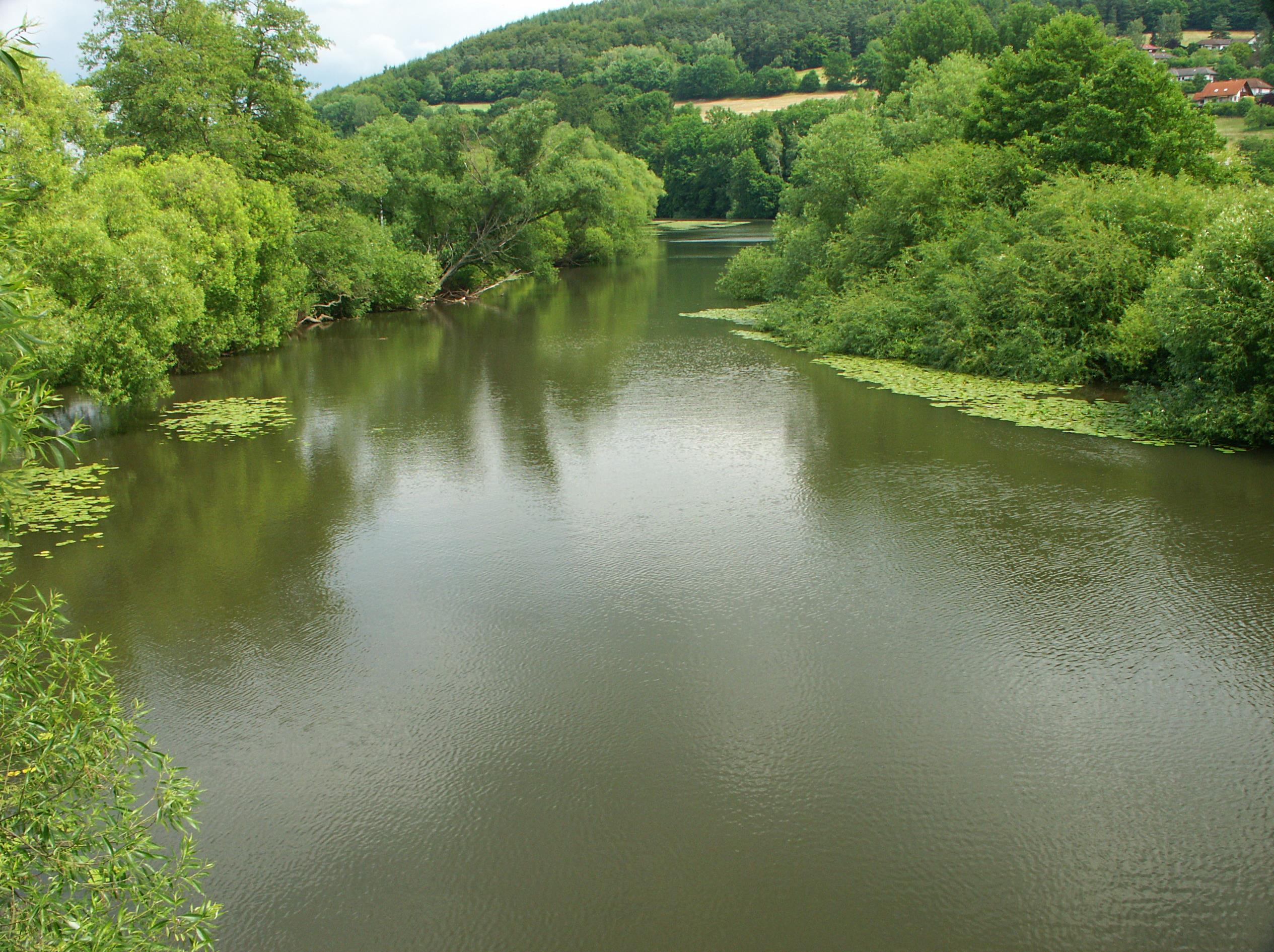 The river Fulda, near Bad Hersfeld in Hesse